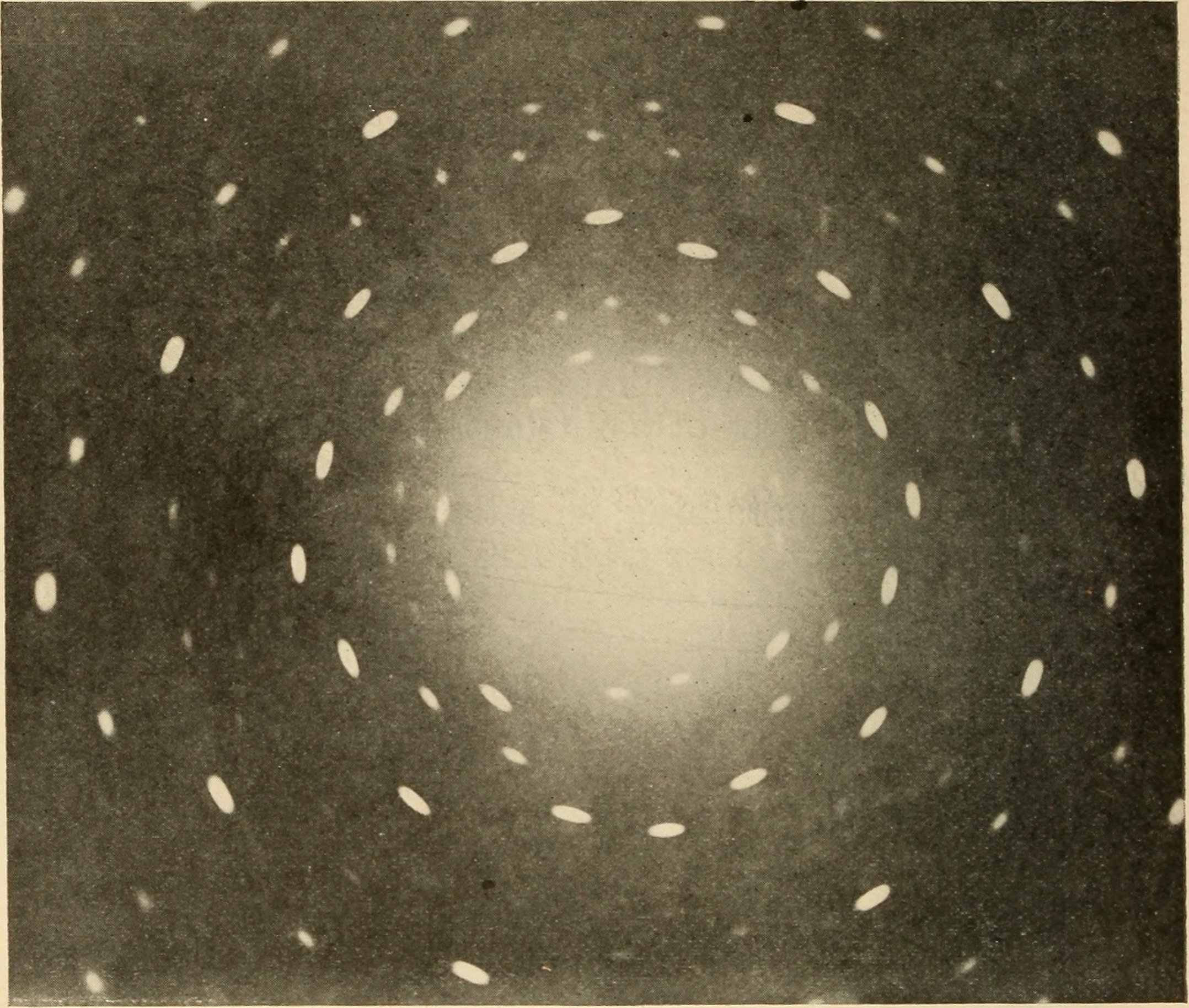 Title: The American journal of science Year: 1880 (1880s) Authors: Subjects: Science Publisher: New Haven : J. D. & E. S. Dana Text Appearing Before Image: 138 Wychoff—Crystal Structure of Magnesium Oxide, Art. IX.—The Crystal Structure of Magnesium Oxide; by Ralph W. G. Wyckoff. Previous measurements on powdered magnesium oxide^ have led to the conclusion that this compound has the same crystal structure as sodium chloride. Such a Text Appearing After Image: Fig. 1. The Lane photograph obtained by passing the X-rays in a direc- tion roughly normal to the (lOU) face of magnesium oxide. study did not, however, furnish a unique solution. The following determination is based upon the general method for studying the structures of crystals which has been developed from the theory of space groups and which is given in a very general form in the preceding article.- In the case of a cubic crystal there is no uncertainty as to the choice of those coordinate axes which will give the simplest unit of structure. The number of chemical ^ W. p. Davey and E. O. Hoffman, Phys. Eev., (2), 15, 333, 1920. ^ Kalph W. G. Wyckoff, see the preceding article in this number.